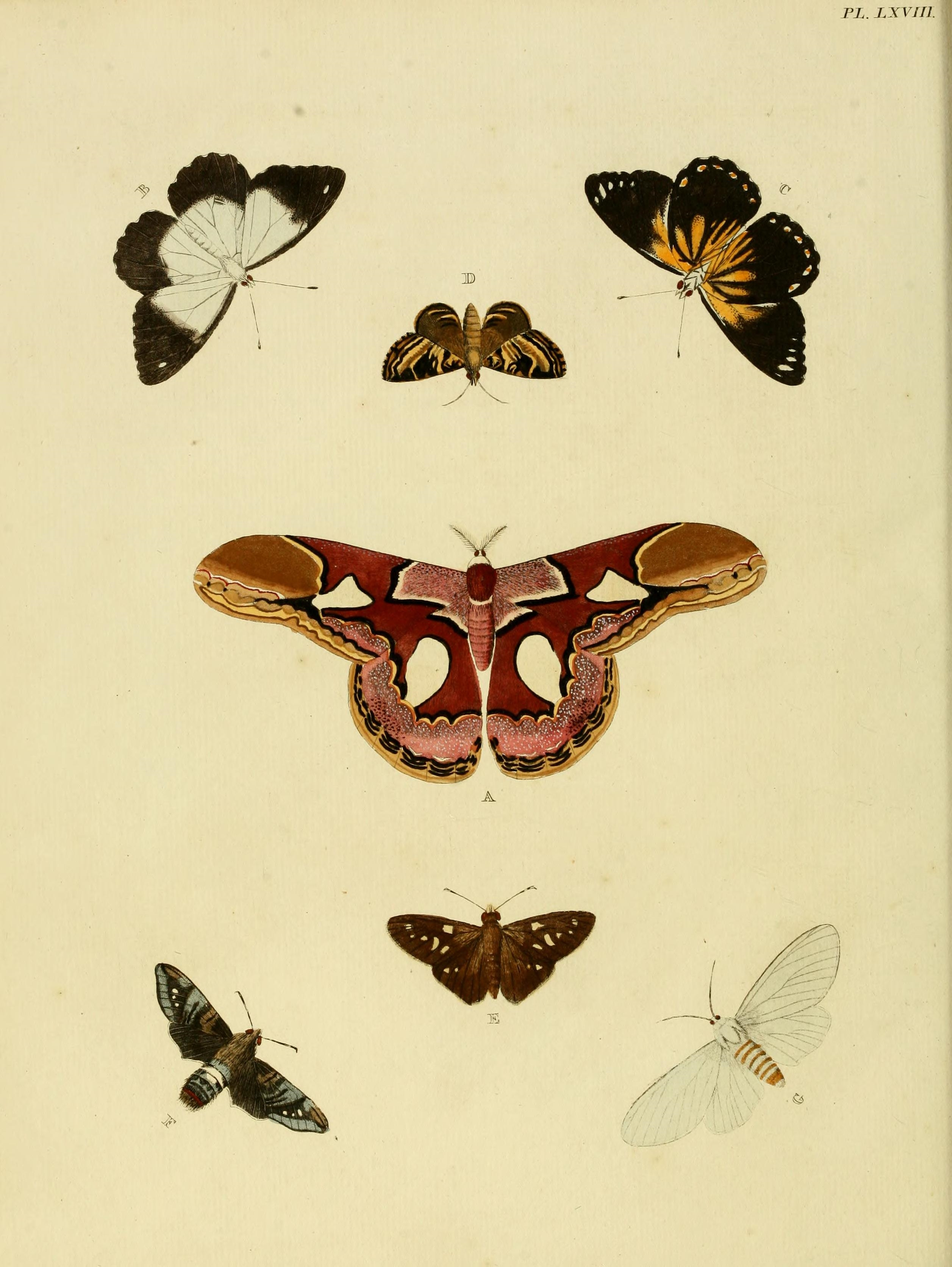 Plate LXVIII A: "(Phalaena) Hesperus" ( = Rothschildia hesperus), see Funet B, C: "(Papilio) Coronea" ( = Belenois java), see Funet D: "(Phalaena) Tanais" ( = maybe Coenipeta tanais), see NHM, Butterflies and Moths of the World. Photos at Barcode of Life E: "(Papilio) Salius" ( = Saliana salius, iconotype?), see Funet F: "(Sphinx) Tantalus" ( = Aellopos tantalus), see Funet G: "(Phalaena) Eridanus" ( = Hypercompe eridanus, iconotype?), see Funet